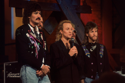 In concert, The Cannery, 1987